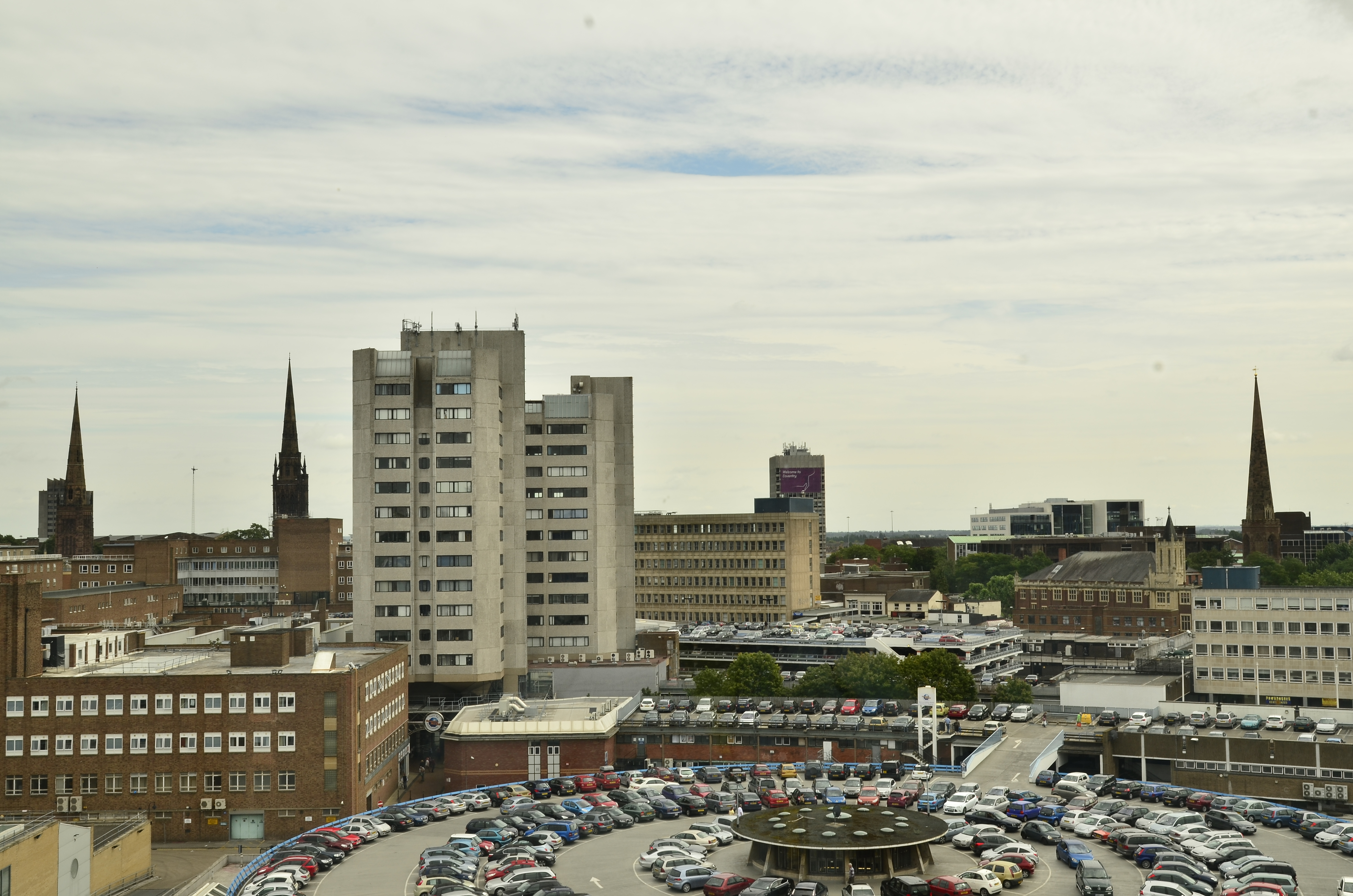 Three Spires in Coventry, UK